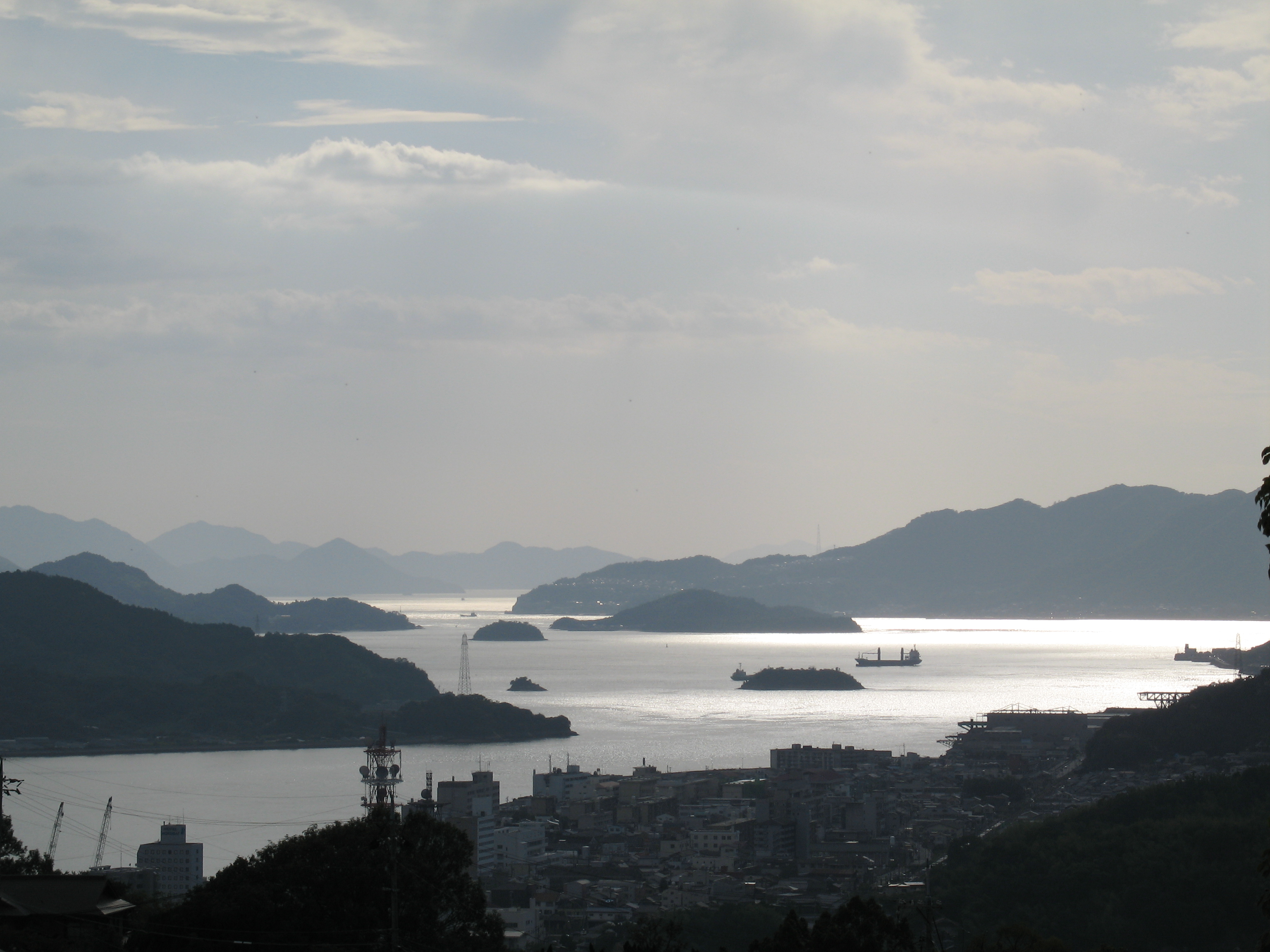 Sea view from Onomichi. Seto Inland Sea, Onomichi.